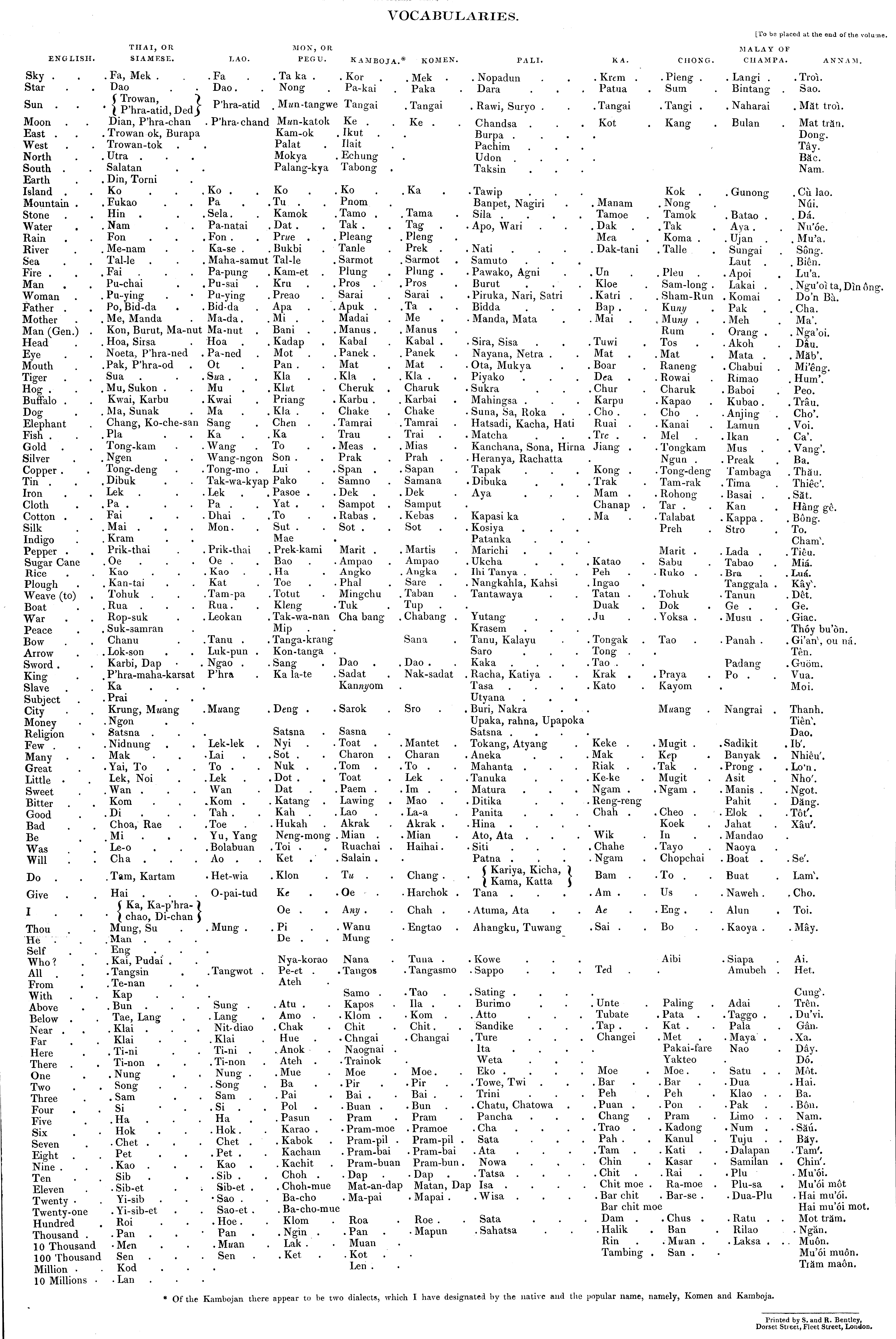 Vocabularies of Thai Vietnamese Kambojans Champa Mon Lao Pali by John Crawfurd book Published by H Colburn London 1828